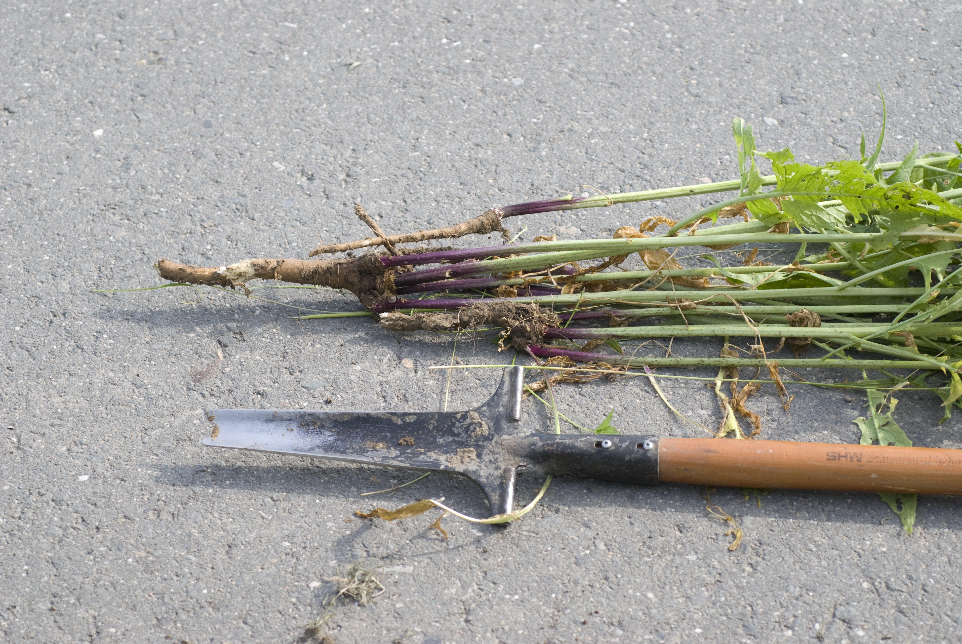 Bunias orientalis instrument for removal